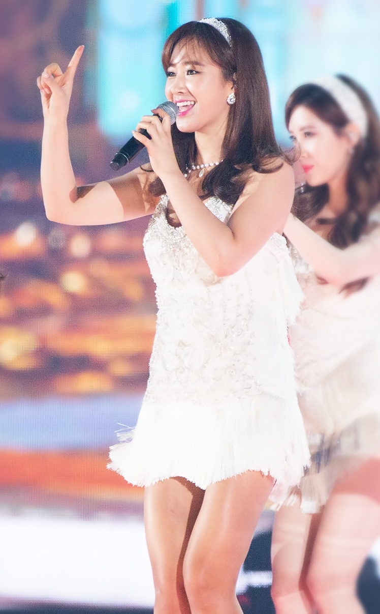 Yuri at KBS Gayo Daechukje December 30, 2015.